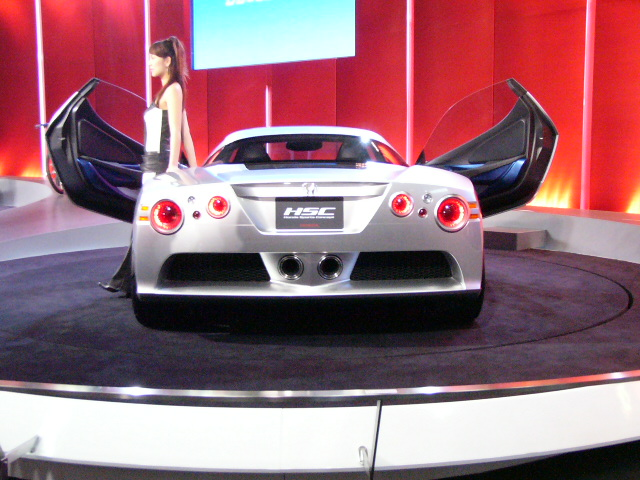 HONDA HSC at Tokyo Motor Show 2003